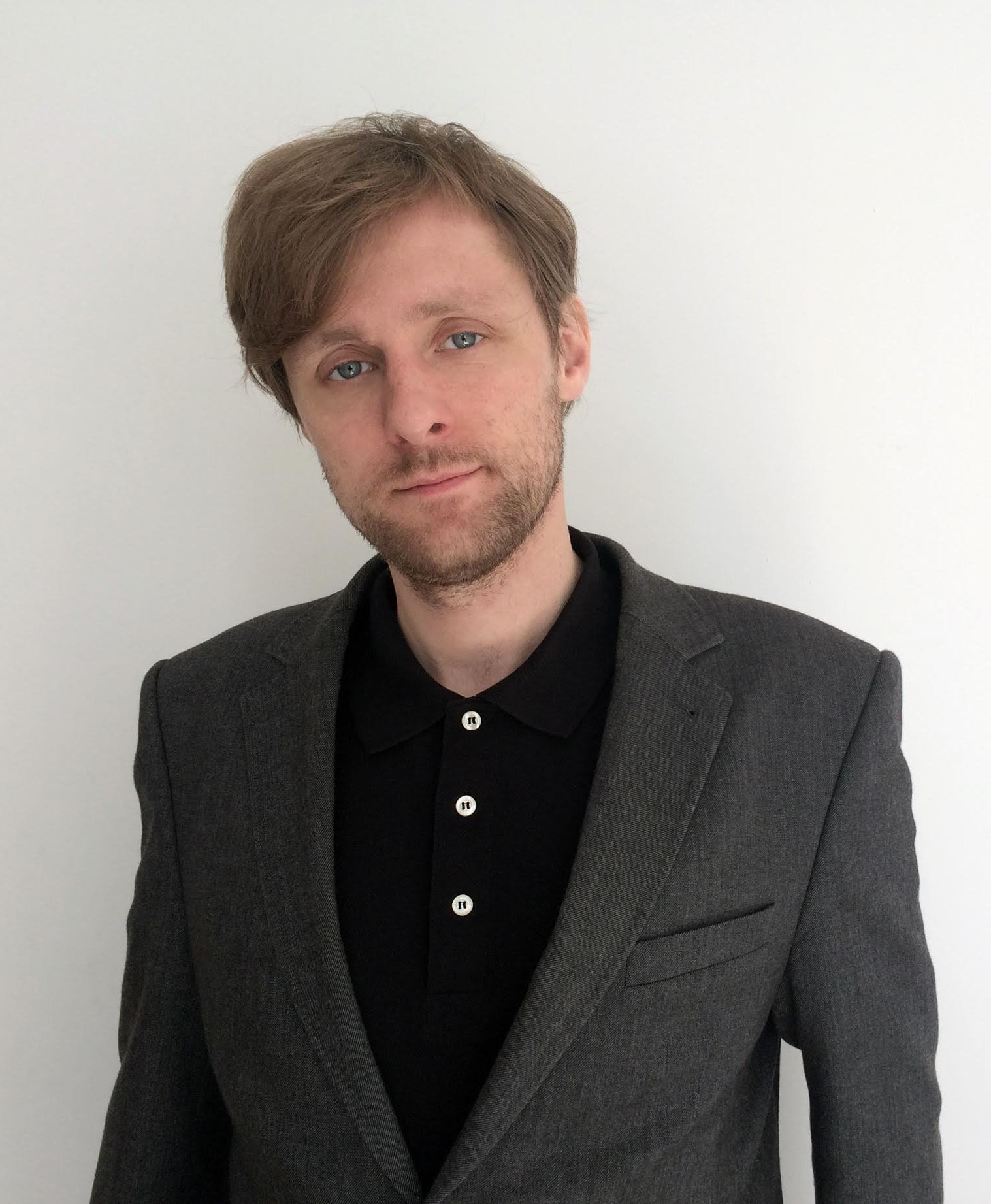 Picture of Polish science communicator Jan Świerkowski.